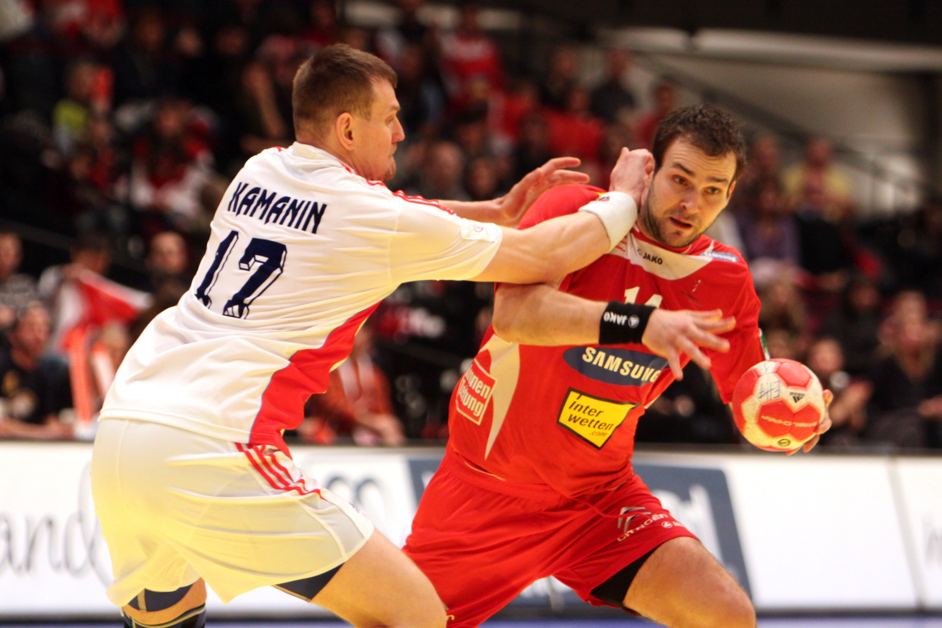 2010 European Men's Handball Championship Group I: Russia vs Austria 30:31 — Russias defender Alexei Kamanin in the duel with Austrias teamcaptain Viktor Szilagyi